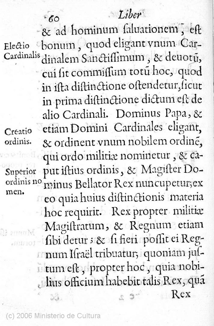 page of the liber de fine